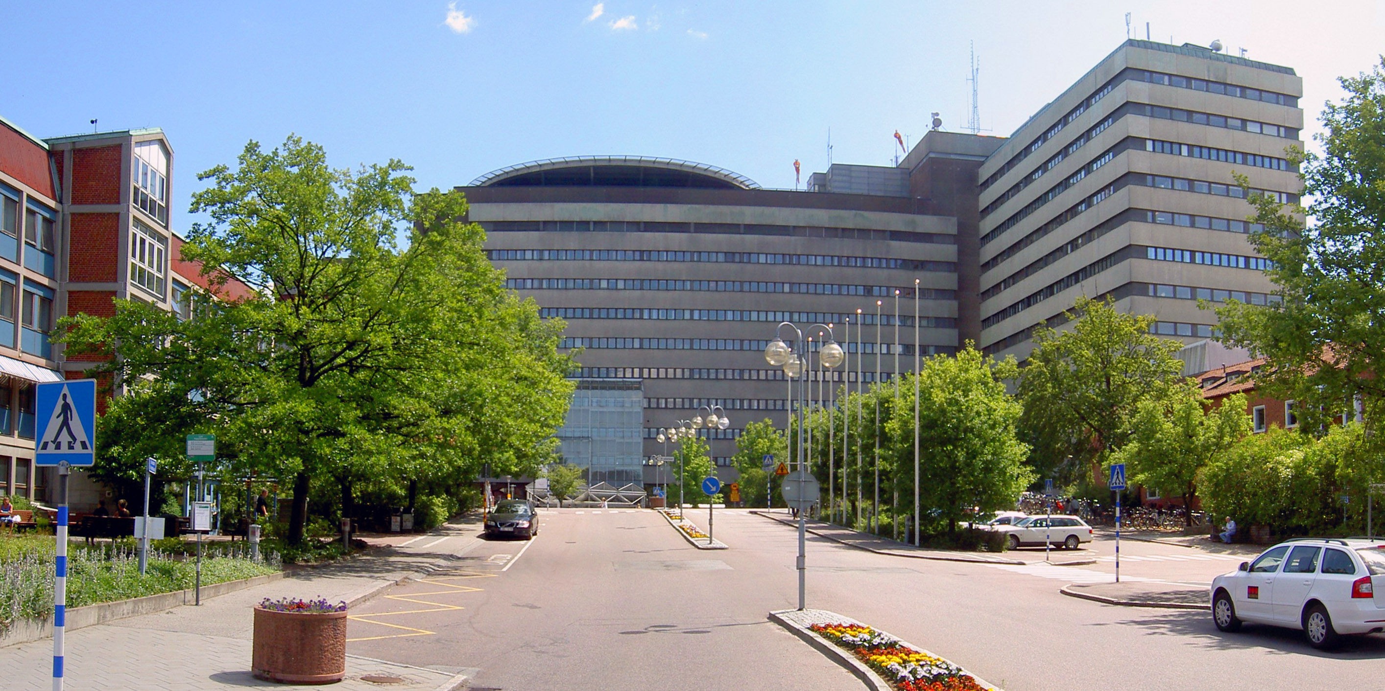 Skåne University Hospital, Lund